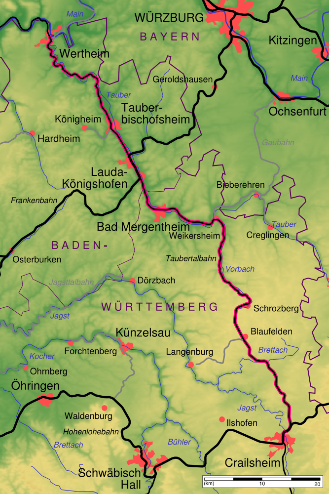 map of Tauber valley railway. please see User:Kjunix/BahnNWB for comments.